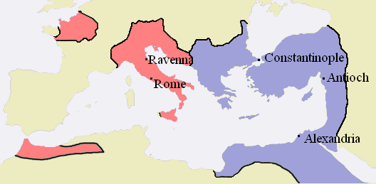 Original came from Wikicommons, author allows the use of the image for any purpose. This image is an improvement of the original. Colours have been reversed. Important names have been included. Names have been translated into English. Maps have been improved with recourse to the map (no copy) inside of "The Fall of he Roman Empire" ISBN 1-89880-048-0